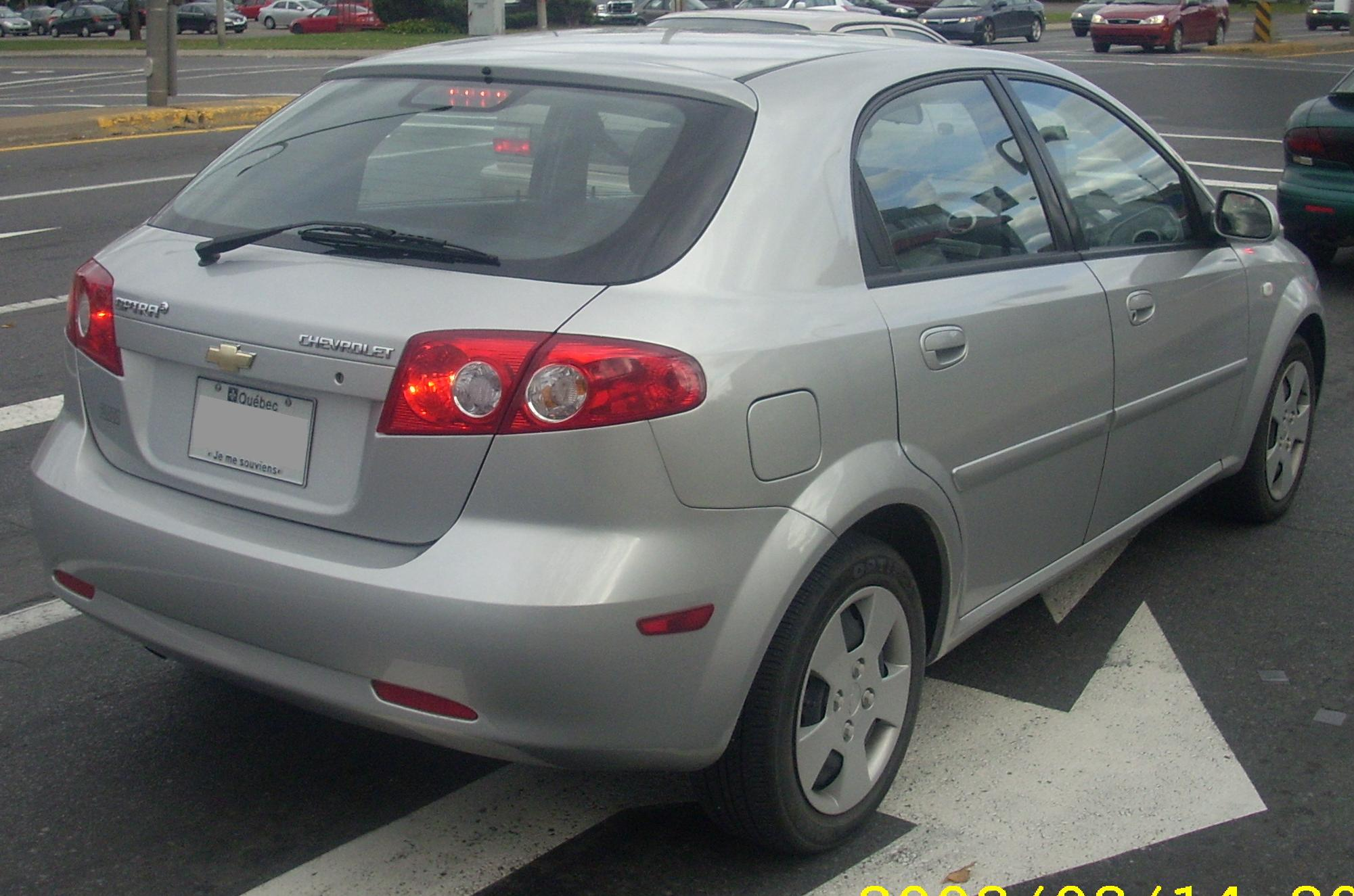 Chevrolet Optra5 photographed in Montreal, Quebec, Canada.